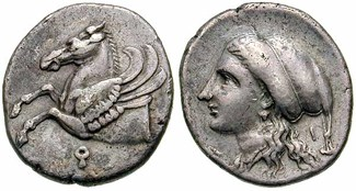 Corinth, 338-300 BC. Silver Hemiobol (1.34 gm). Forepart of Pegasos left / Head of Aphrodite left, wearing sakkos; D-I flanking neck.